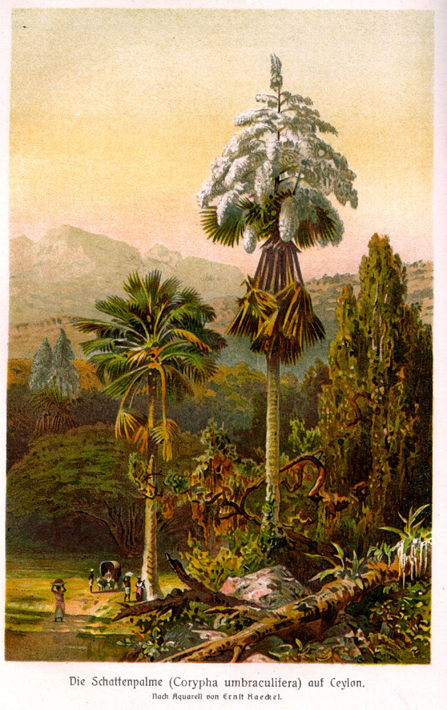 Corypha umbraculifera, page 203 of Anton Joseph Kerner von Marilaun, Adolf Hansen: Pflanzenleben: Erster Band: Der Bau und die Eigenschaften der Pflanzen. (1913)